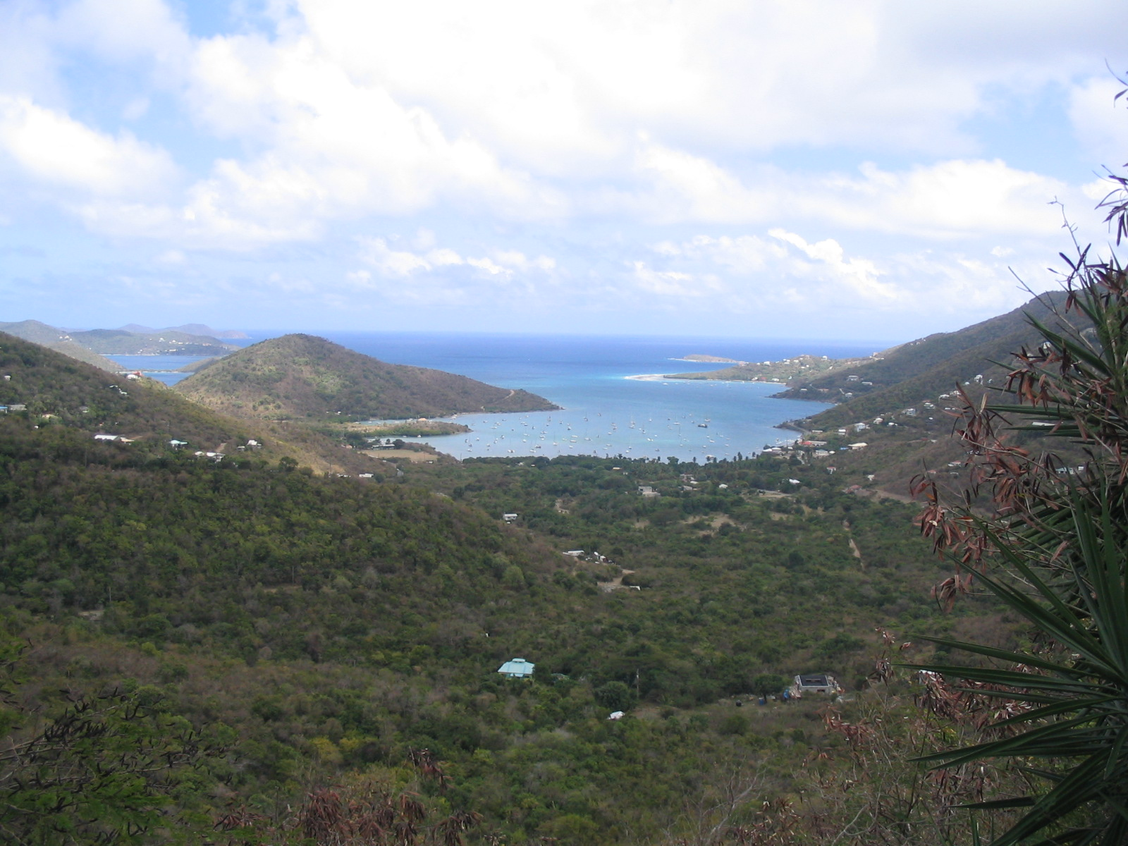 Coral Bay, St. John, USVI (United States Virgin Islands)